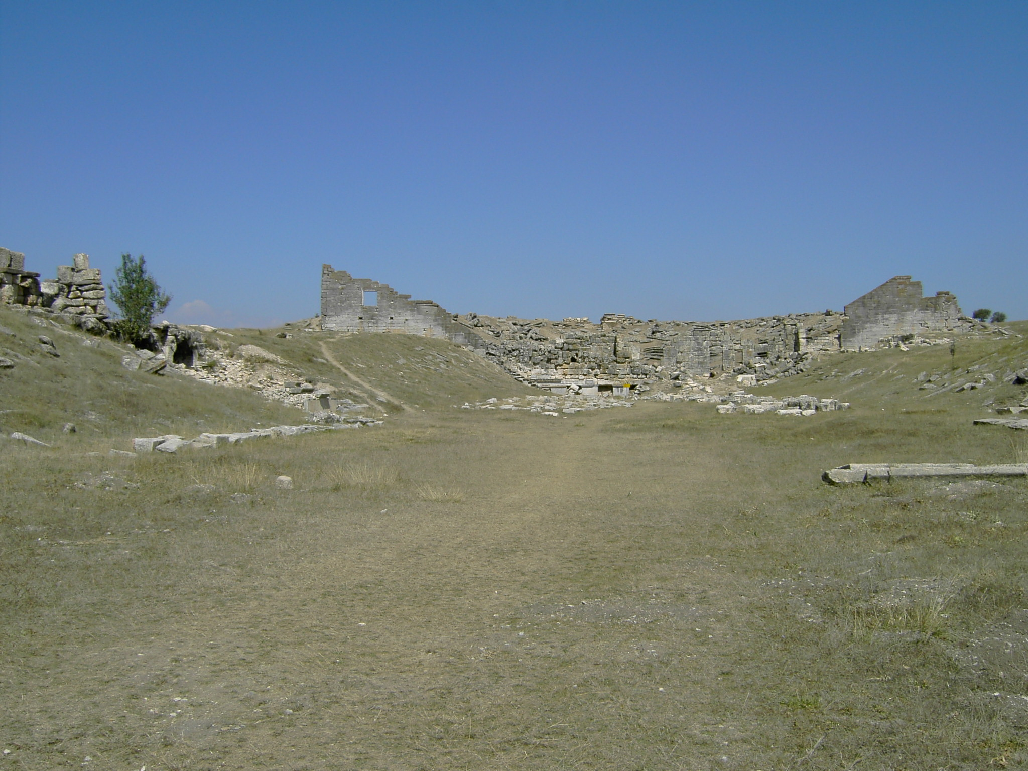 A unique structure - the combined stadium-theater complex of AizanoiTürkçe: Dünyada benzeri olmayan bir mimari şaheser - stadyumlu tiyatro, Aizanoi